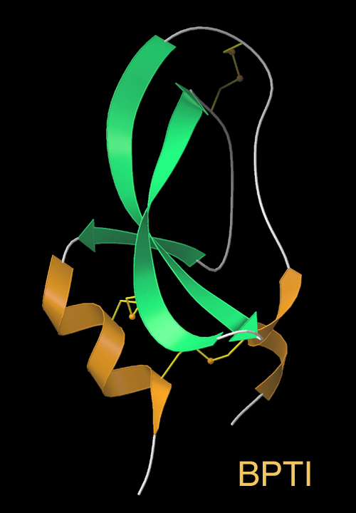 Ribbon schematic of the BPTI (basic pancreatic trypsin inhibitor) protein structure. Beta strands are in green, helices in gold, loops in white, and the 3 disulfide-bond crosslinks that stabilize it in yellow. The lysine that binds tightly to the active site of the trypsin digestive enzyme to inhibit it extends from the loop at the top. From PDB file 1BPI, visualized in Mage and rendered by Raster3D.